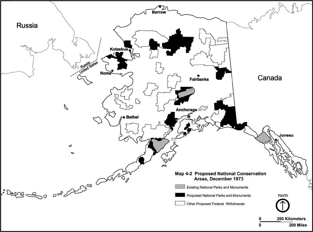 Proposed National Conservation Areas of the United States in Alaska — in December 1973.